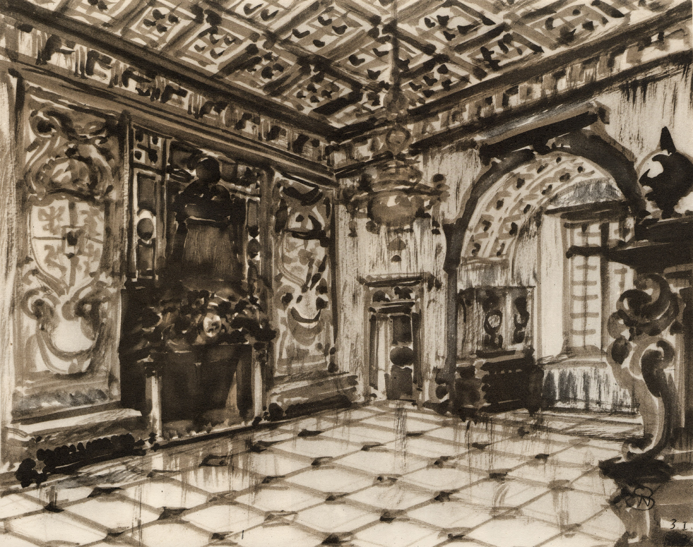 Wawel Castle interior, Cracow, Poland